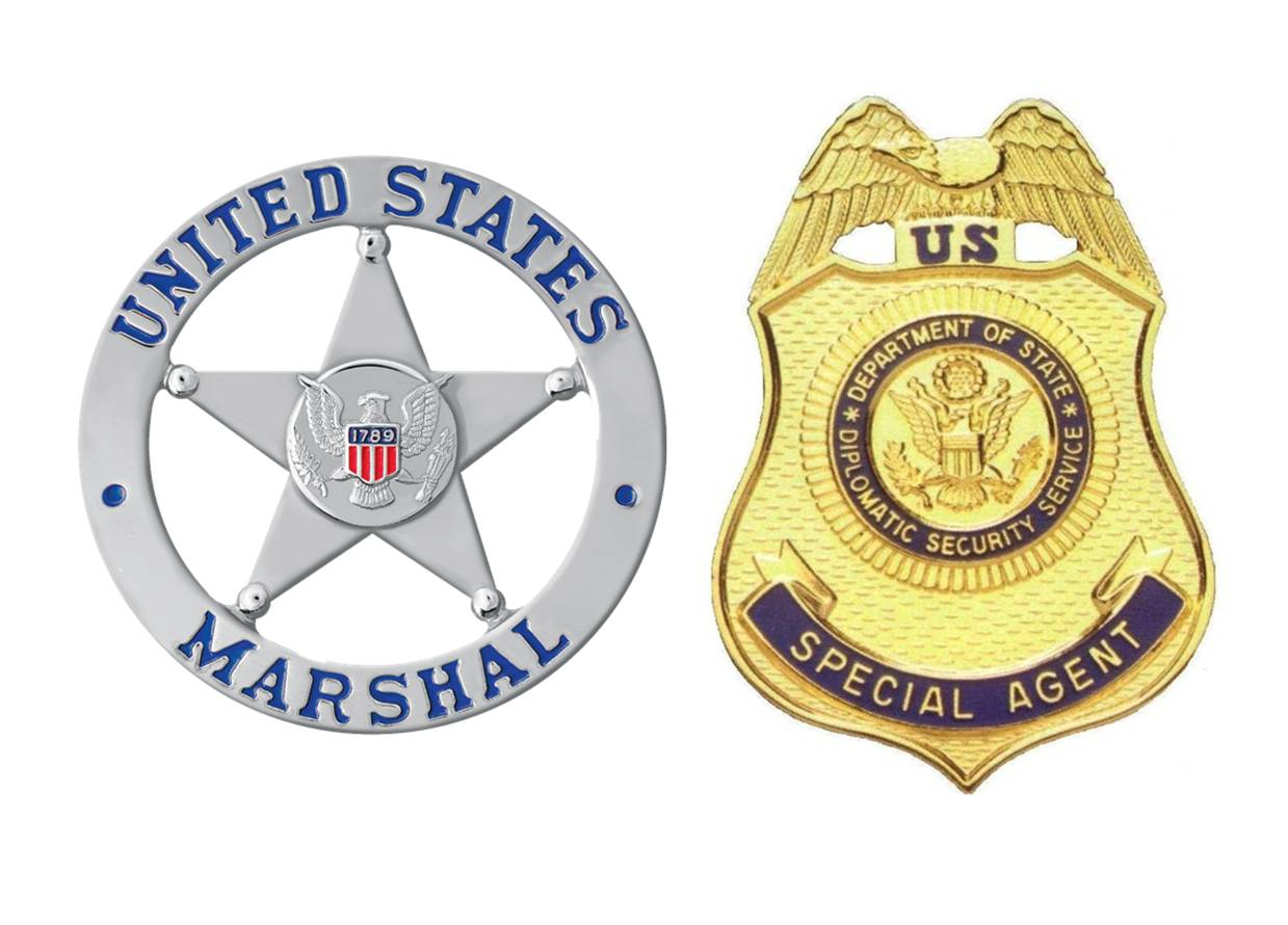 Badges - U.S. Marshals Service and Diplomatic Security Service team